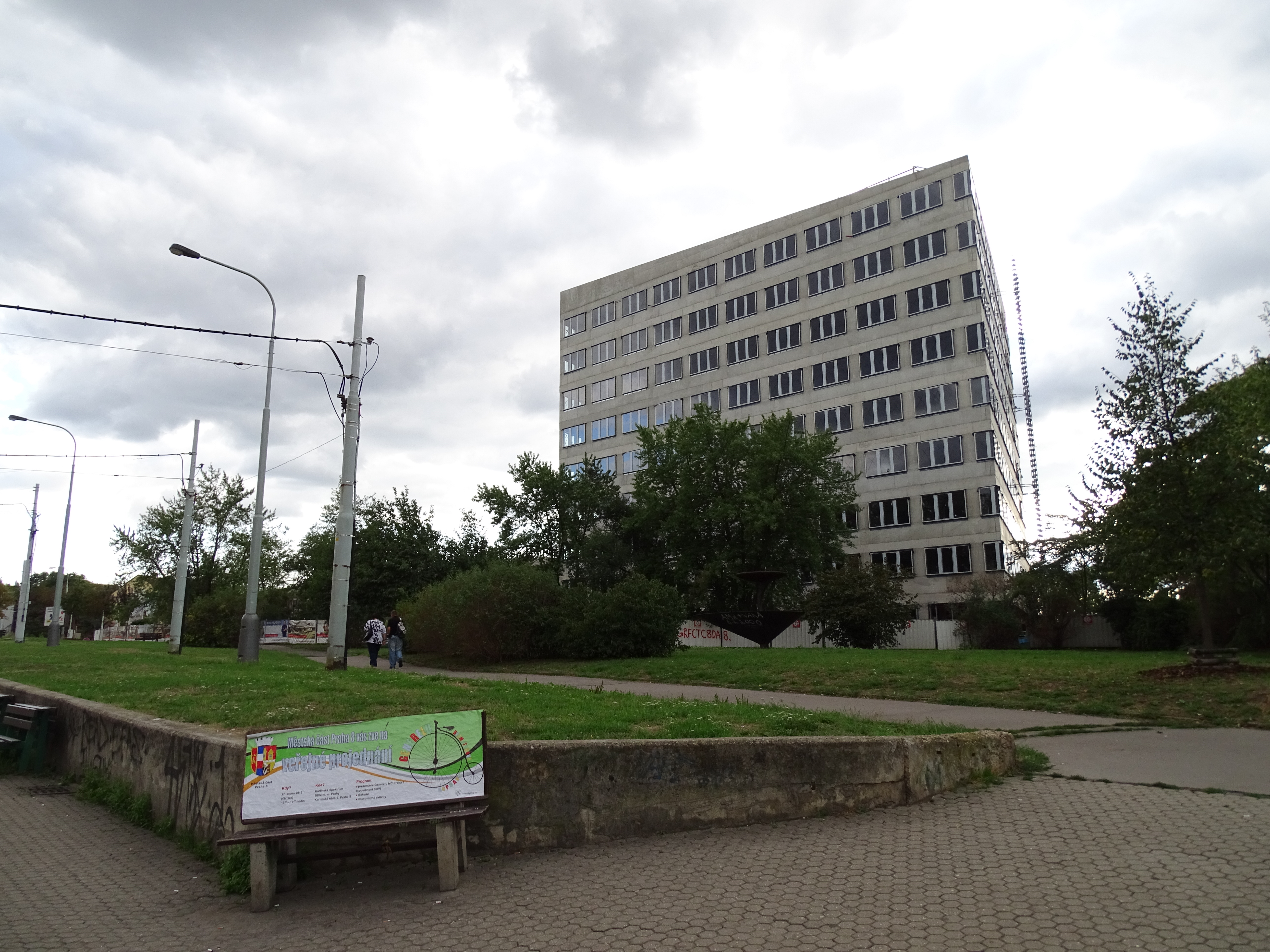 Prague-Libeň, Czech Republic. Zenklova street, a new building near Palmovka.